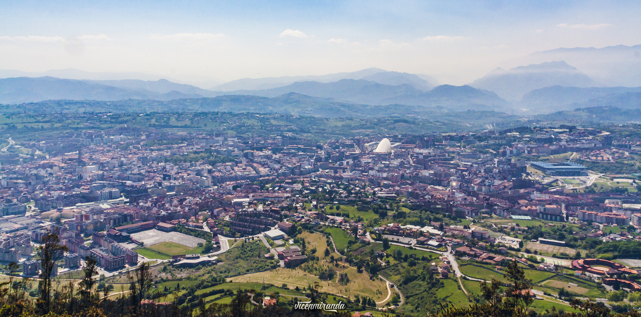 500px provided description: Landscape of Oviedo [#sky ,#landscape ,#city ,#mountains ,#street ,#blue ,#buildings ,#clouds ,#tree ,#beautiful ,#view ,#green ,#scape ,#state ,#large ,#stadium]